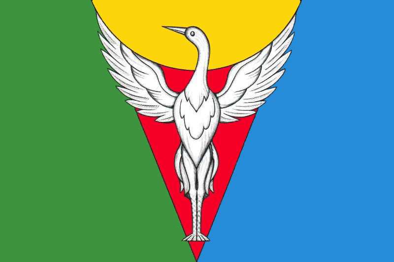 Oktyabrsky rayon (Chelyabinsk oblast), flag